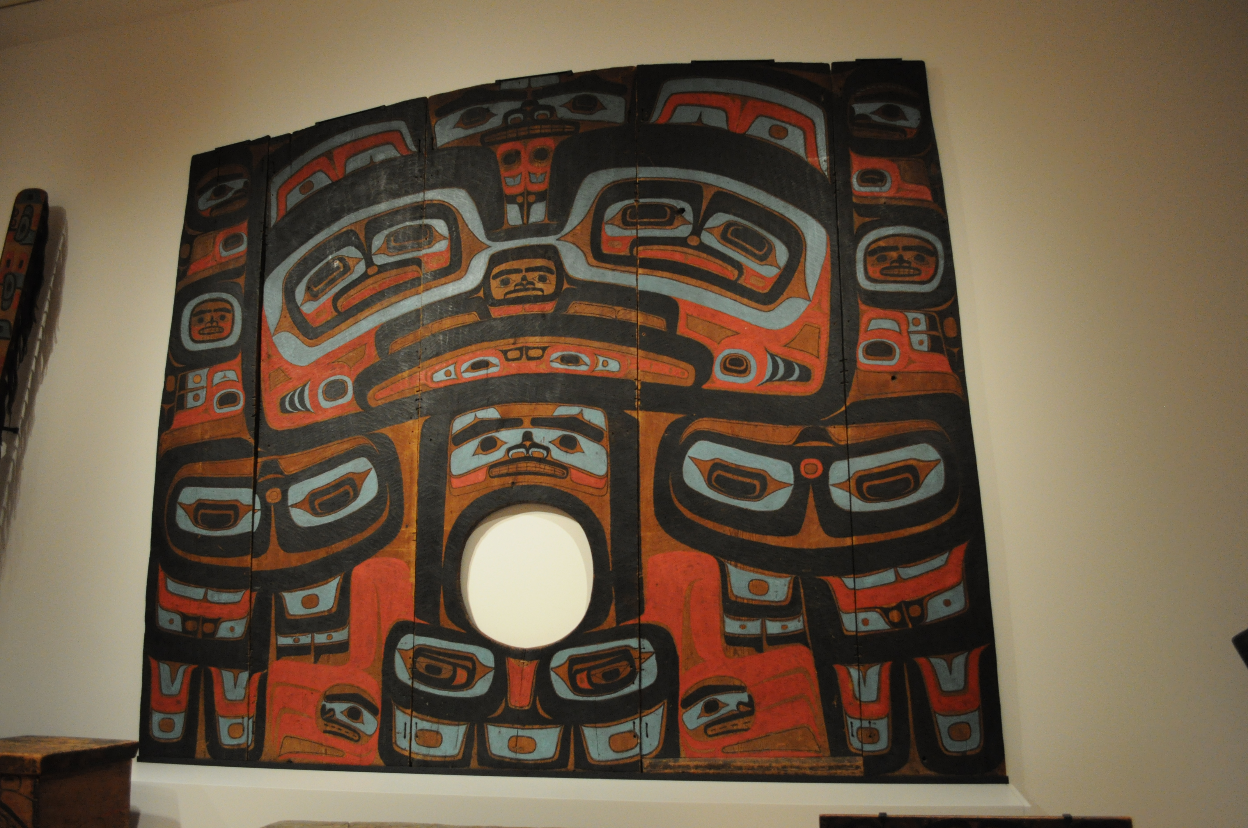 Screen from Tlingit, Gaanax.teidi clan, Klukwan village, Frog House.